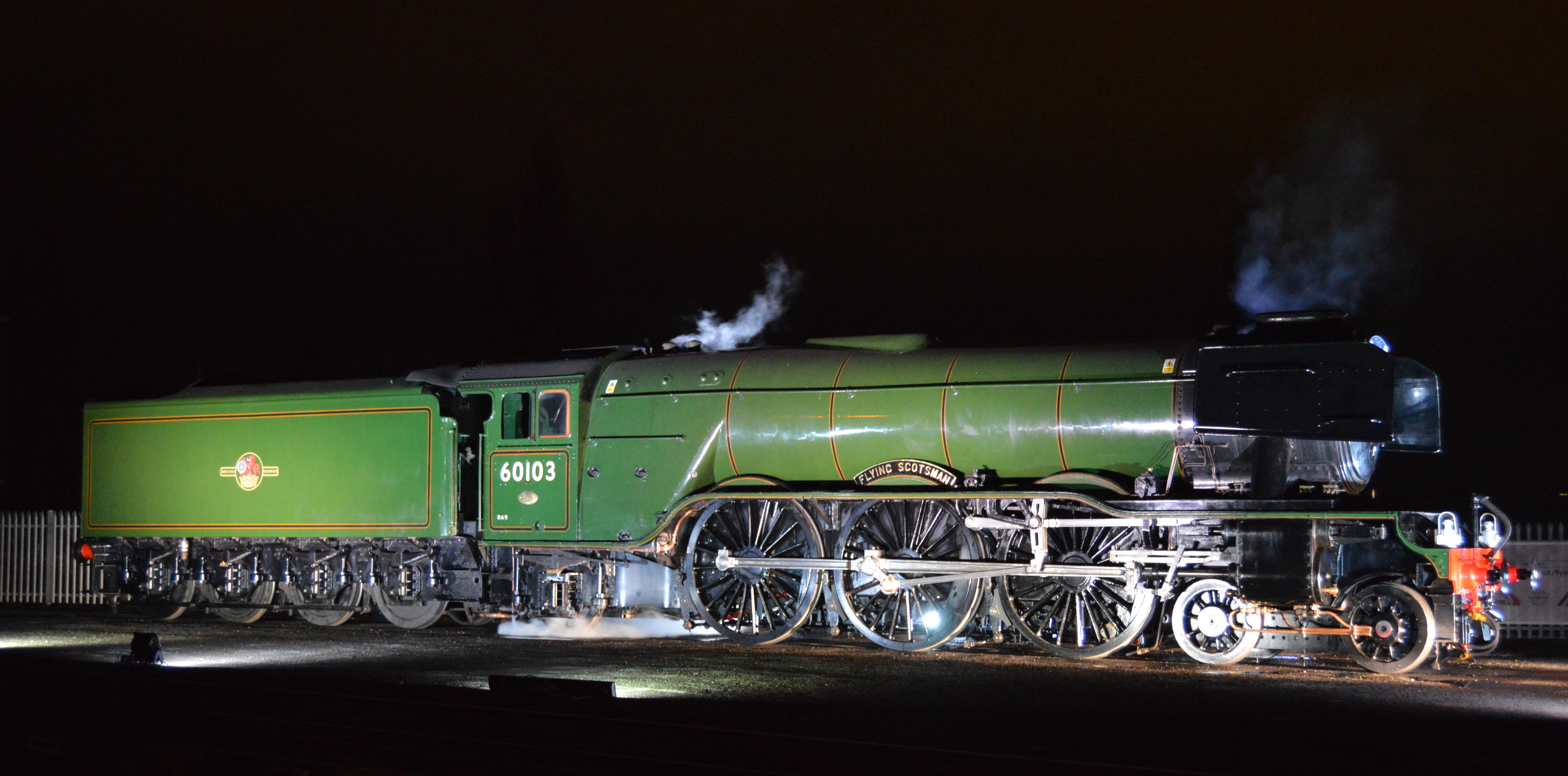 LNER A3 No 60103 Flying Scotsman sat outside the NRM during their Scotsman in Steam, Night Photoshoot.